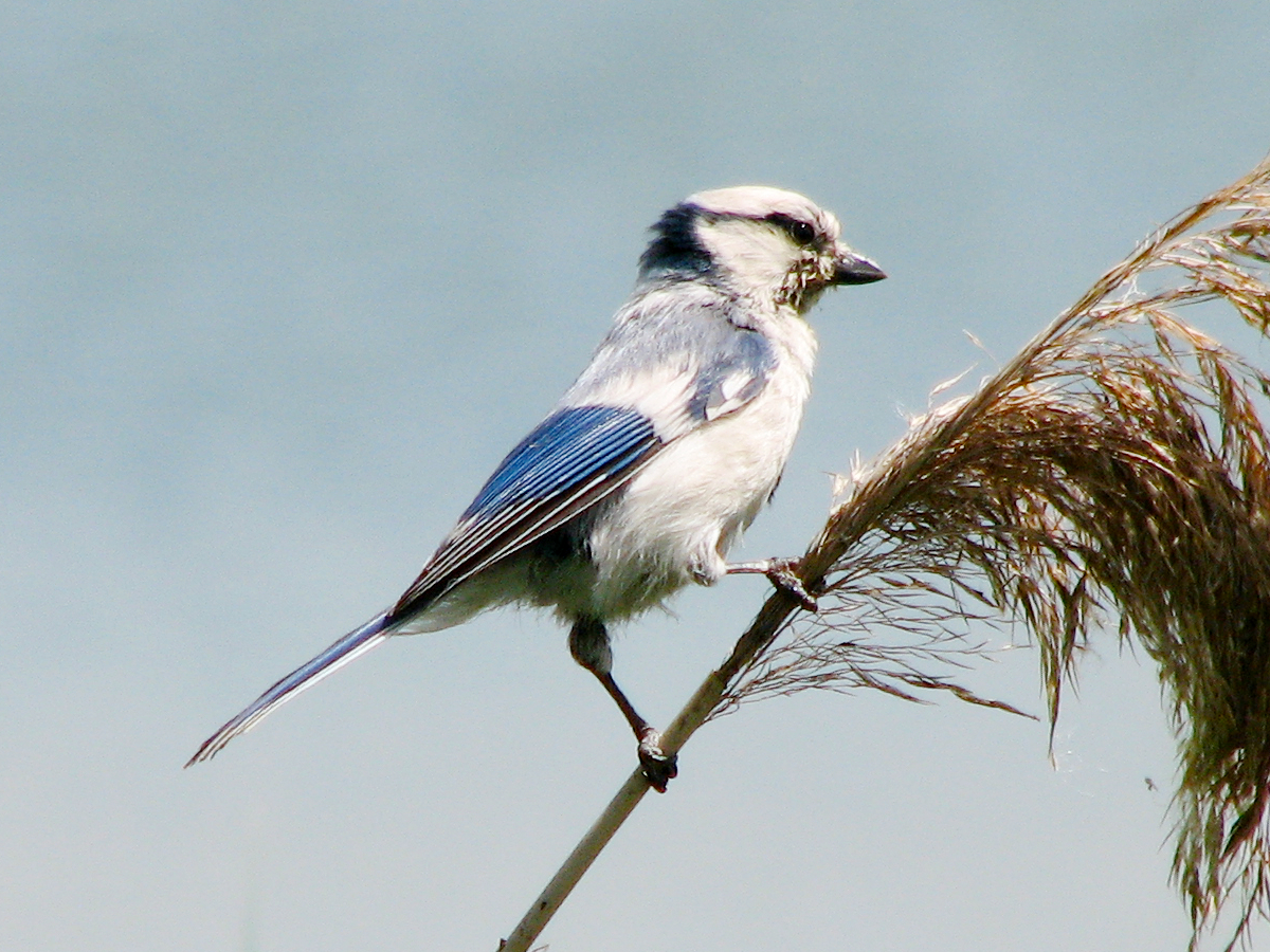 Белая лазоревка (cropped)